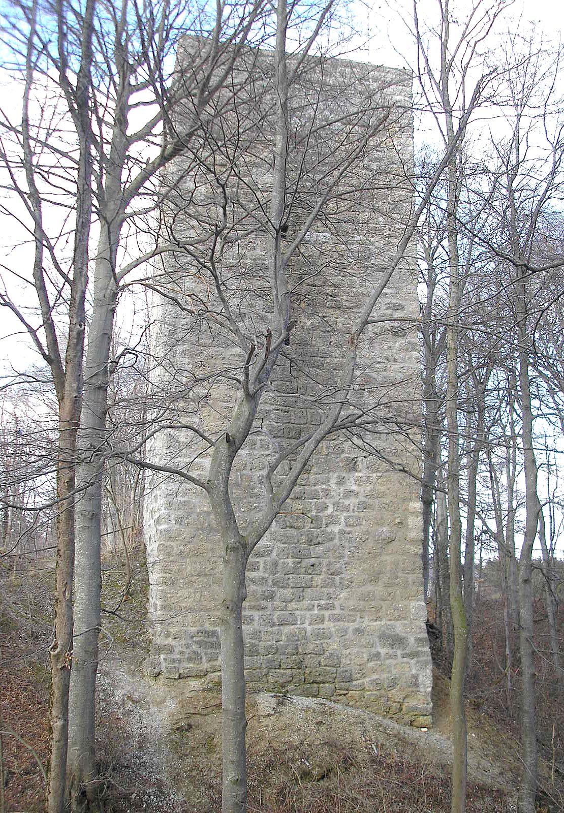 Helmishofen castle near Markt Kaltental (Landkreis Ostallgäu, Bavaria, Germany). The keep from the south (bailey).